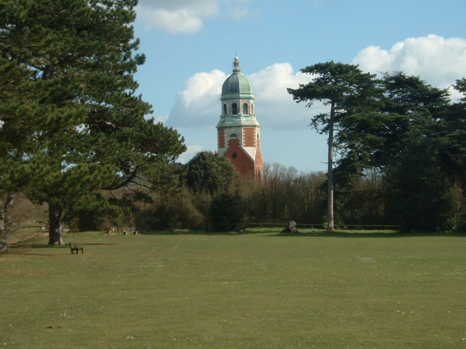 Royal Victoria Country Park, Southampton